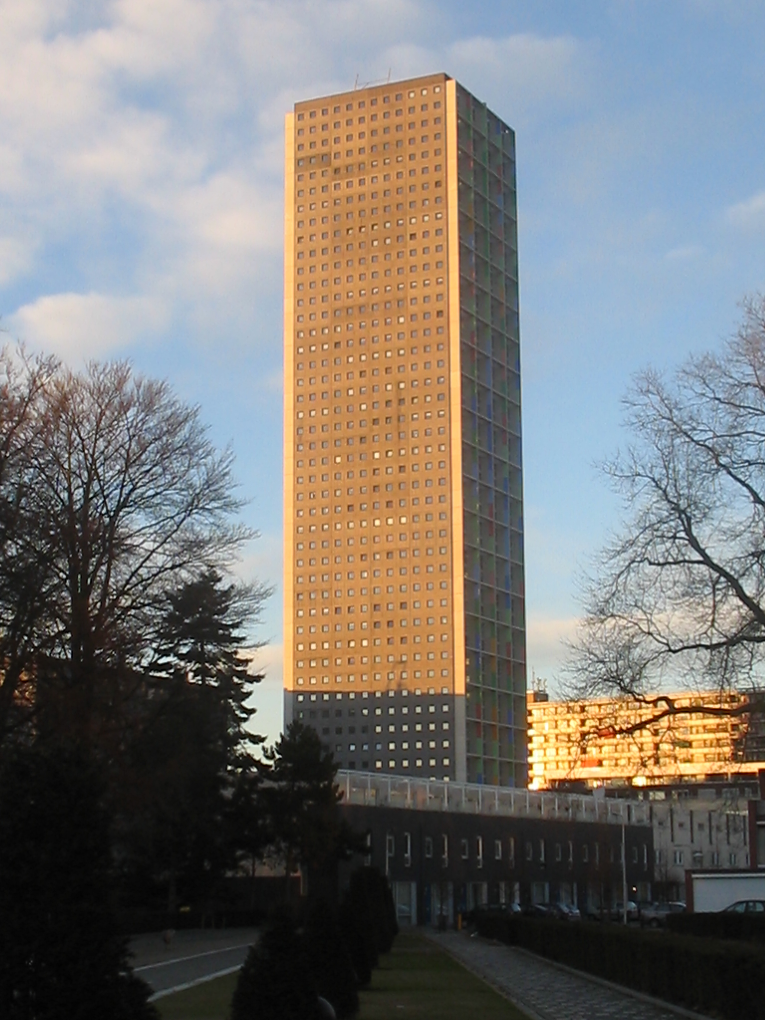 Tilburg, Westpoint tower,dec. 2005